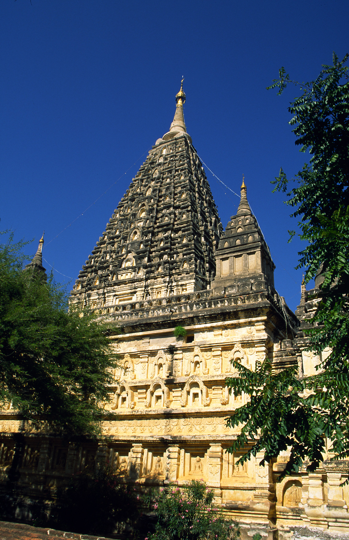 Mahabodhi Temple in Bagan in Myanmar